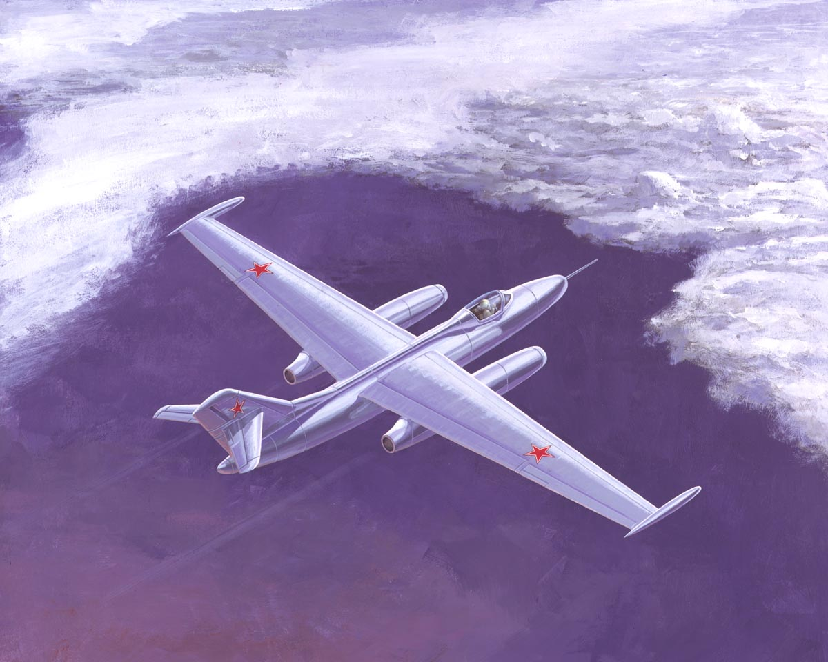 Artist concept of the Yakovlev Yak-25RV high altitude reconnaissance aircraft